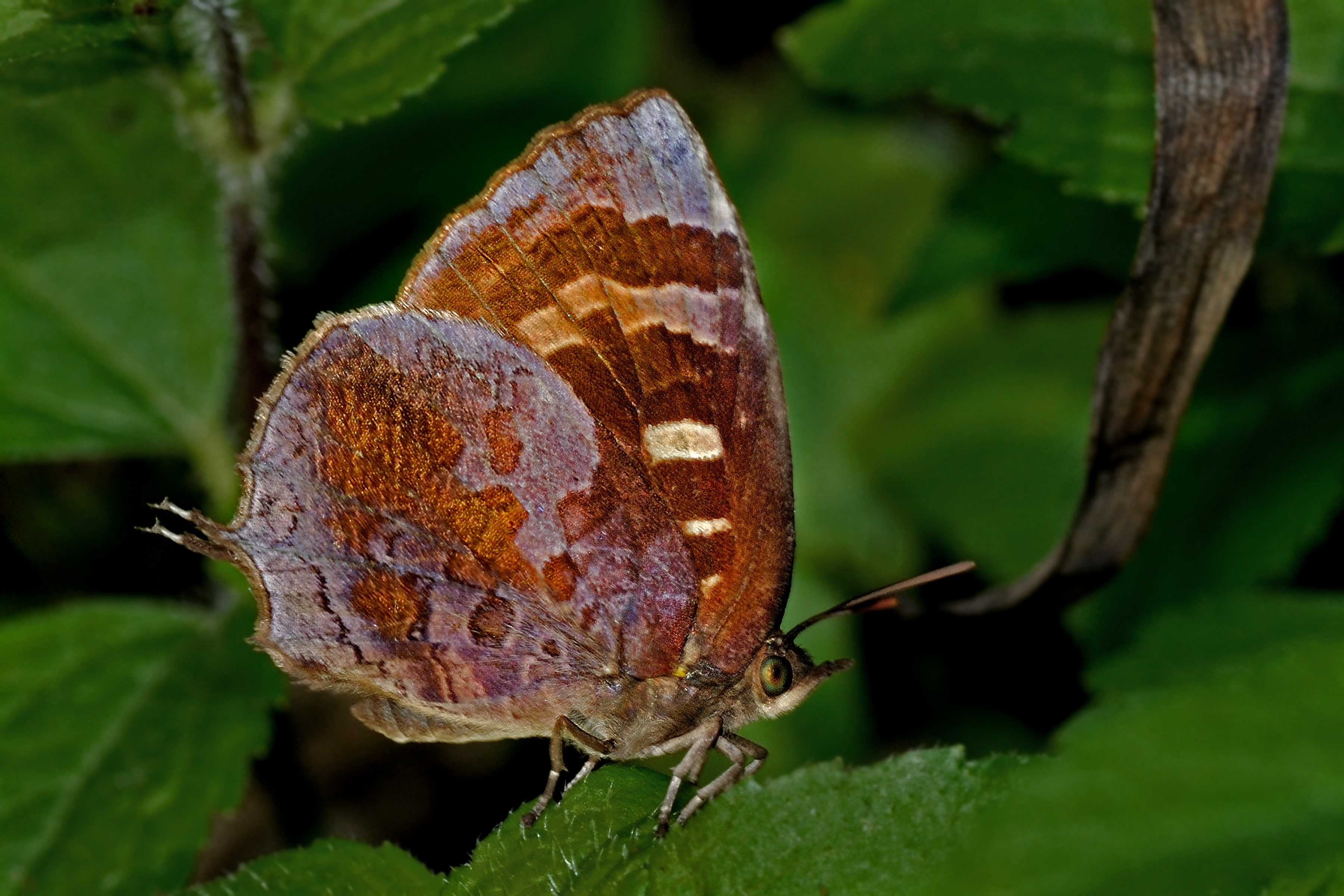 This picture was taken during the project Wiki Loves Butterfly in Buxa Tiger Reserve, Alipurduar,West Bengal, India. Close wing position of Flos adriana de Nicéville, 1883 – Variegated Plushblue